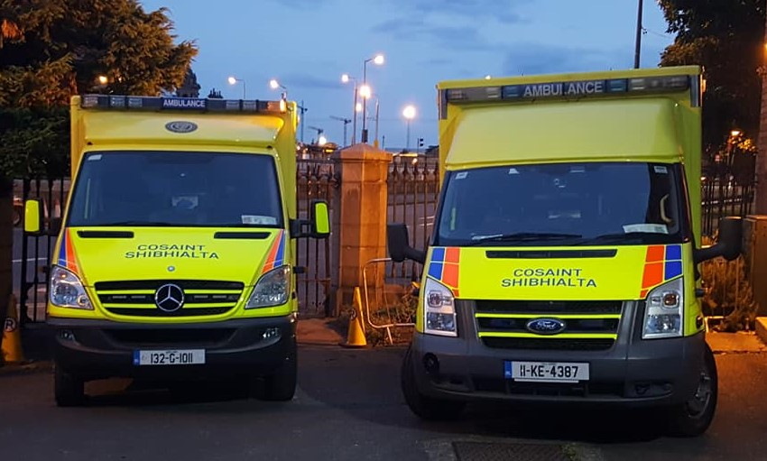 Clare Civil Defence Ambulances during the visit of Pope Francis to Ireland